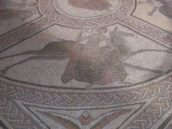 Littlecote, Roman mosaic, detail